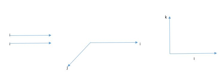 tensor representation - i,j,k